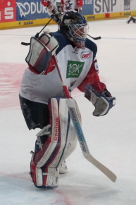 Felix Brückmann, german ice hockey player, goaltender